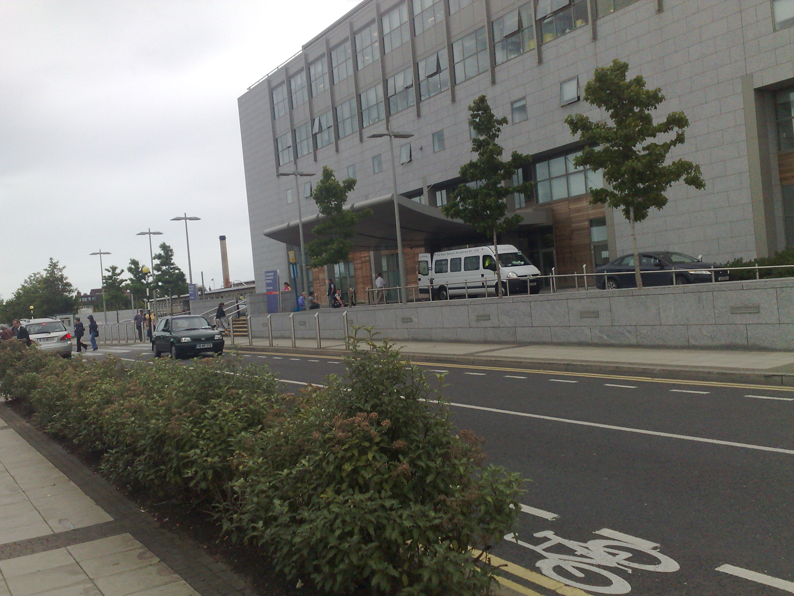 Main entrance to St Vincents' University Hospital.